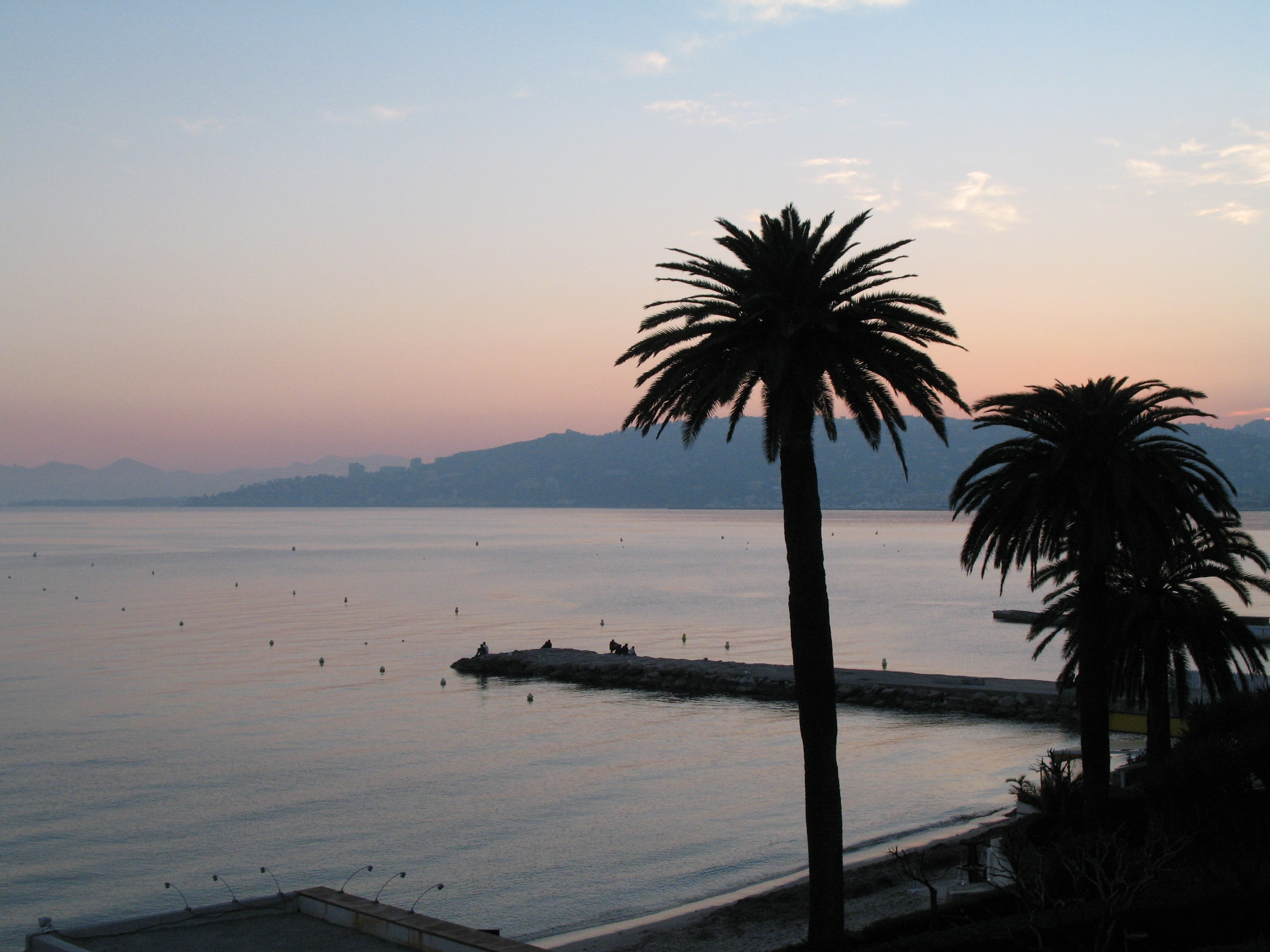 Sunset view on the Mediterranean Sea towards Cannes from Juan-Les-Pins near Nice, France